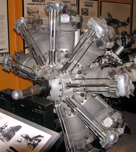 Bristol Jupiter engine at Bristol Industrial Museum, Bristol, England. (The grey engine on the right of the picture is not part of the Jupiter engine)